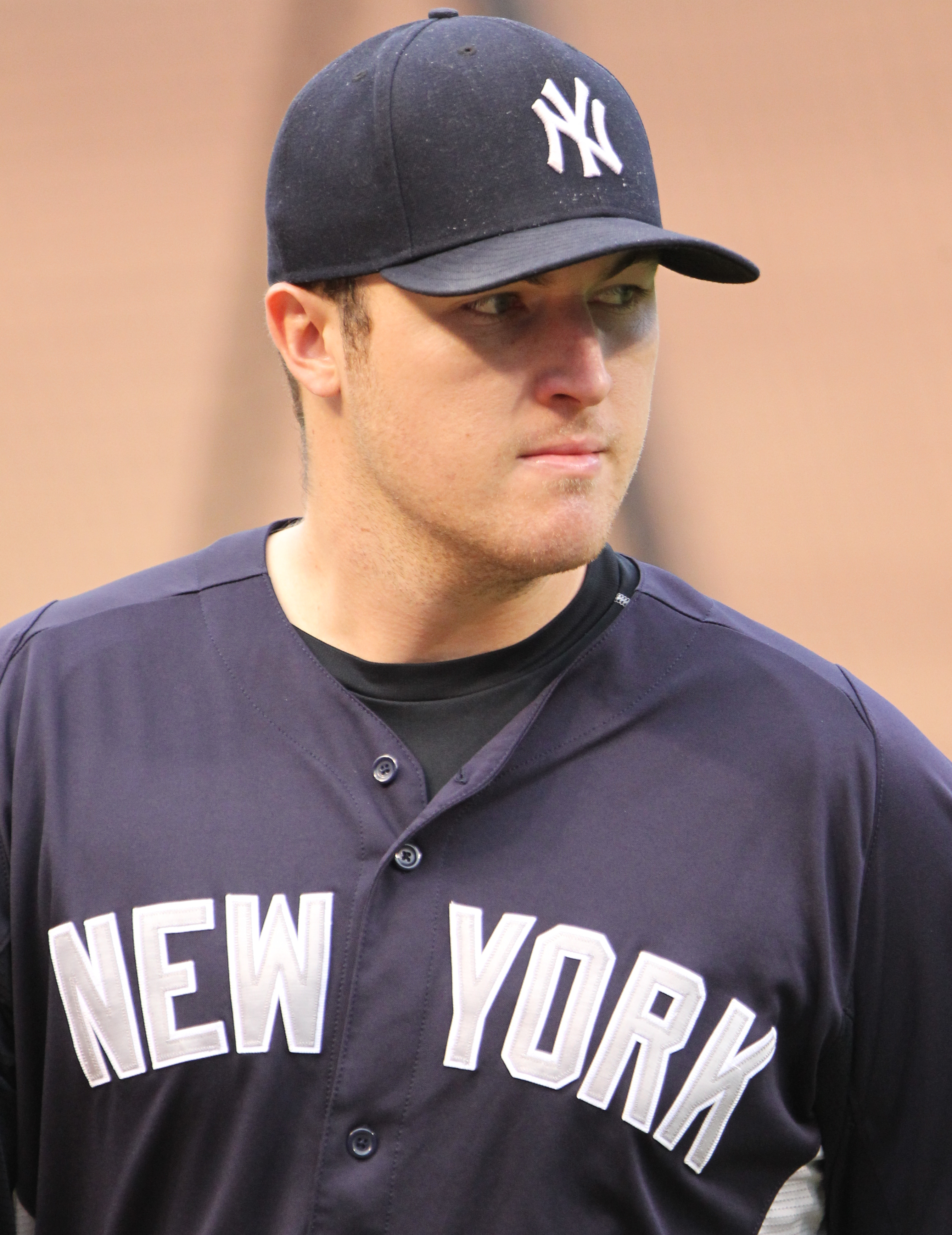 Phil Hughes during pregame warmups prior to a game between the New York Yankees and Baltimore Orioles on August 29, 2011